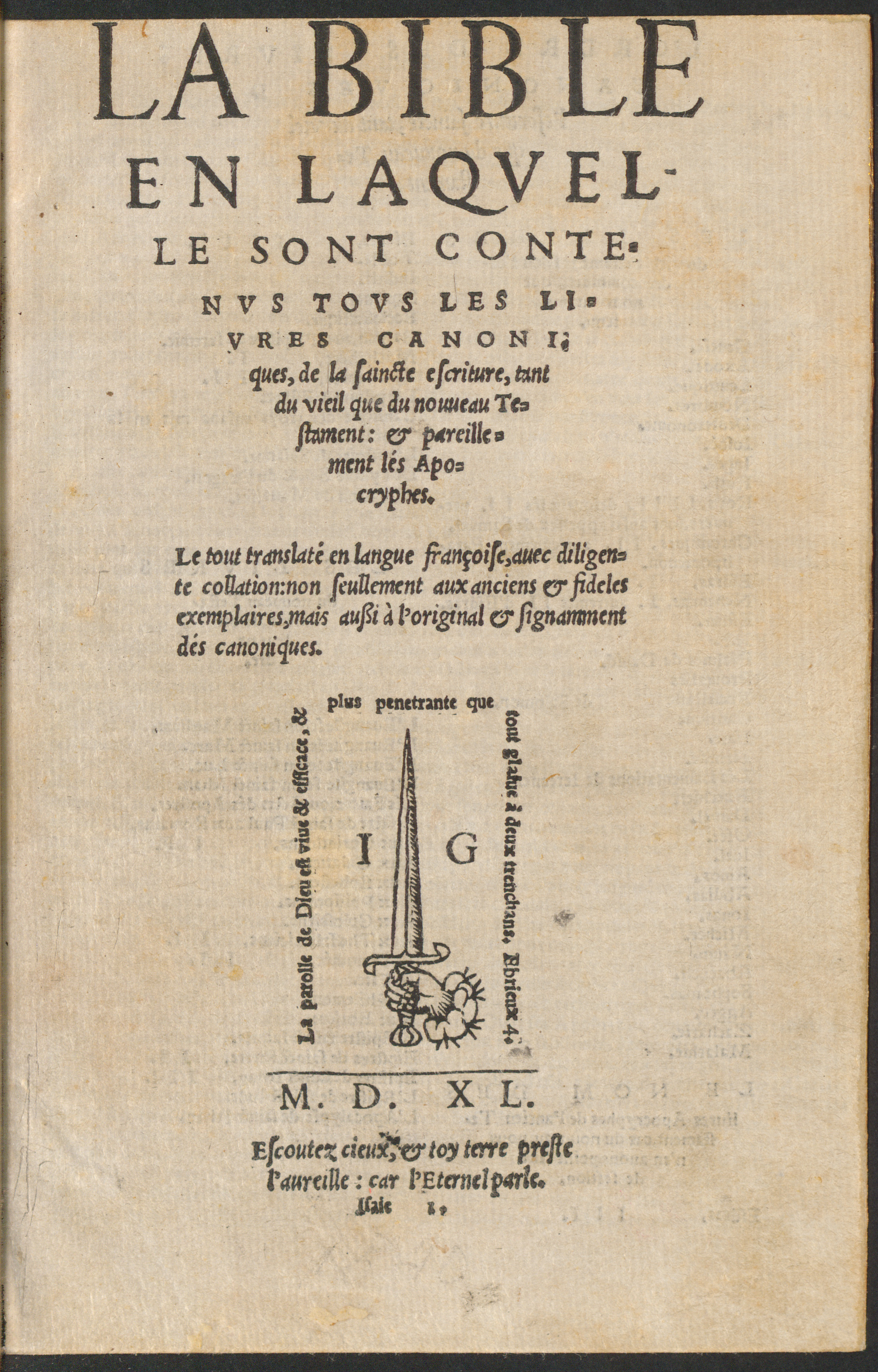 Bible de l'Épée, original from 1540